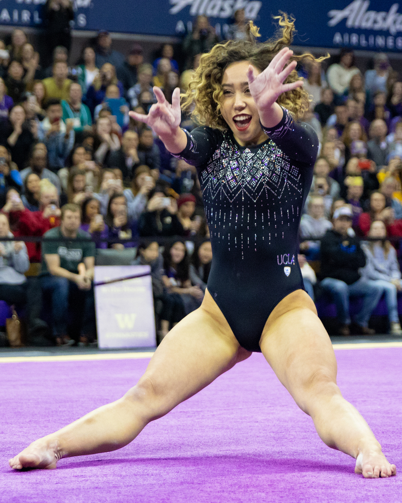 Katelyn Ohashi during the meet between UCLA and UW.